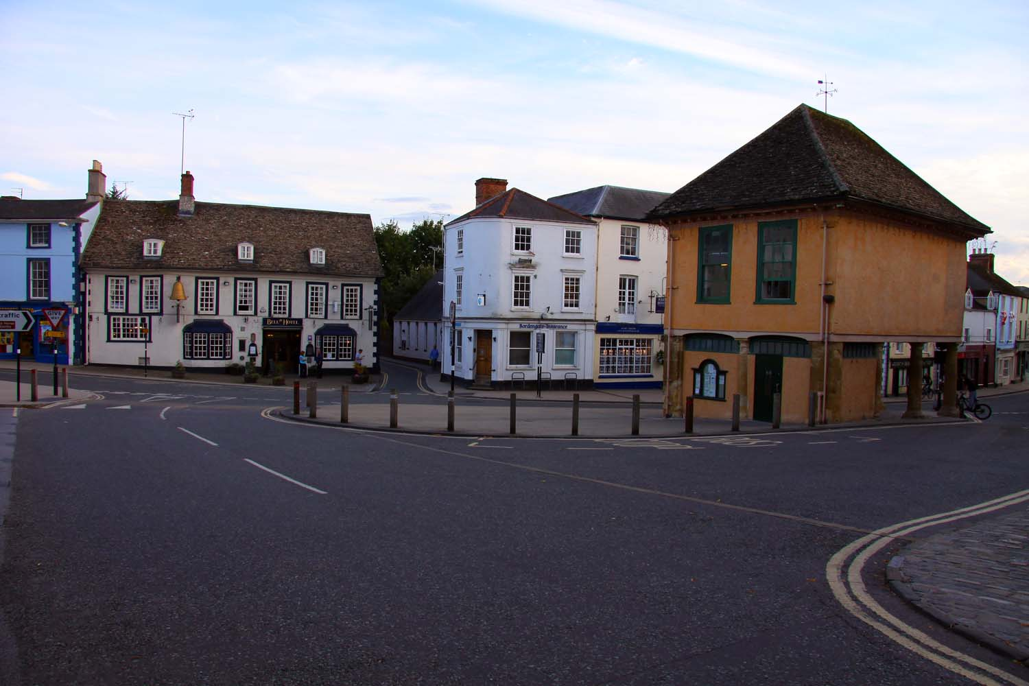 The Market Square in Faringdon